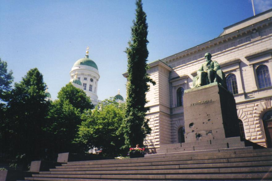 Statue of Johan Vilhelm Snellman, sculpted by Emil Wikström (1864–1942), in front of the Bank of Finland, Helsinki. The foot of the statue intentionally shows damage from Soviet bombing of Helsinki during WW II